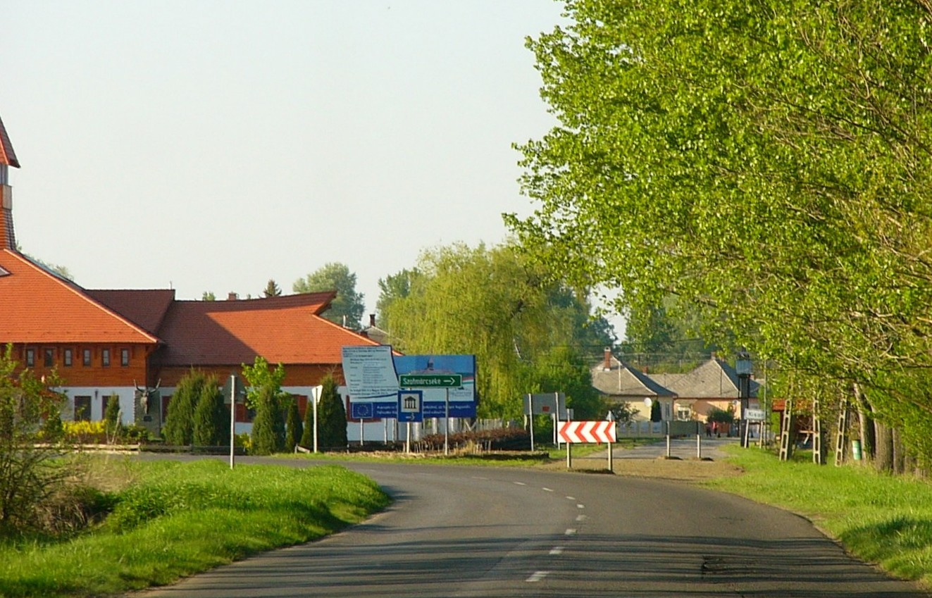 Kisar, 4921 Hungary